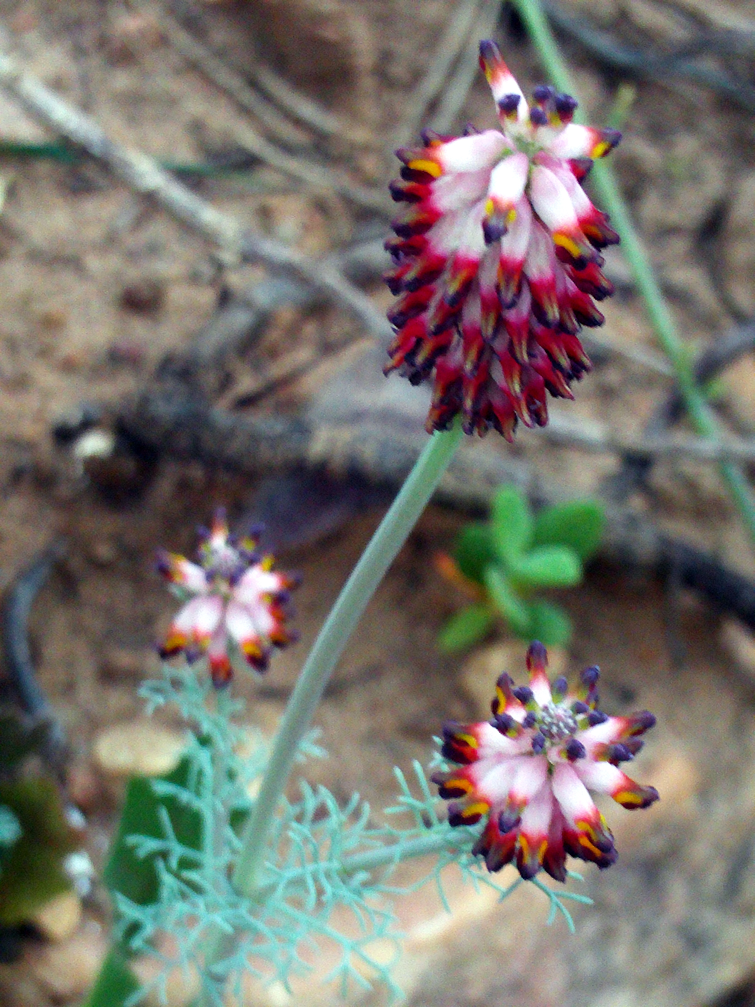 Platycapnos spicata flower close up, Dehesa Boyal de Puertollano, Spain